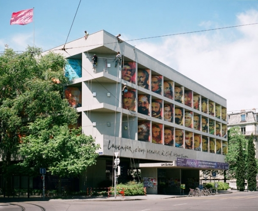 Uni Dufour Rue du Général- Dufour 24 1204 Geneva, Switzerland